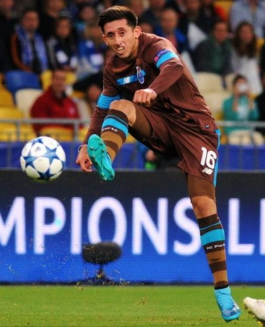 Héctor Herrera